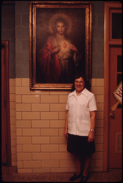 The Principal of Cathedral High School in New Ulm, Minnesota.